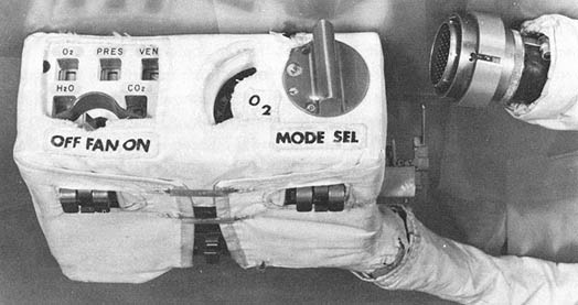 Apollo portable life support system remote control unit.